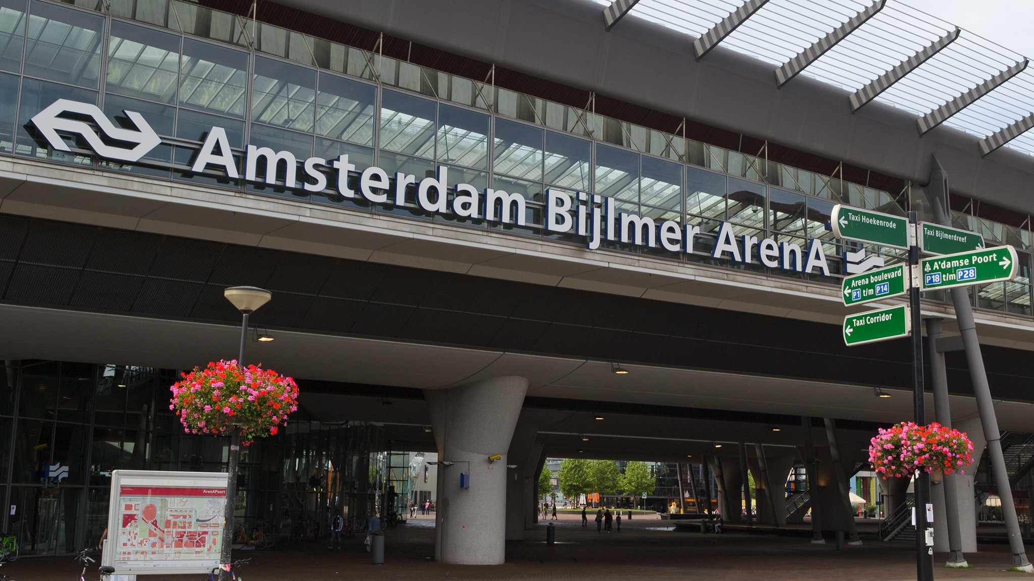 Exterior of Amsterdam Biljmer ArenA Station, facing the Amsterdamse Poort shopping center.